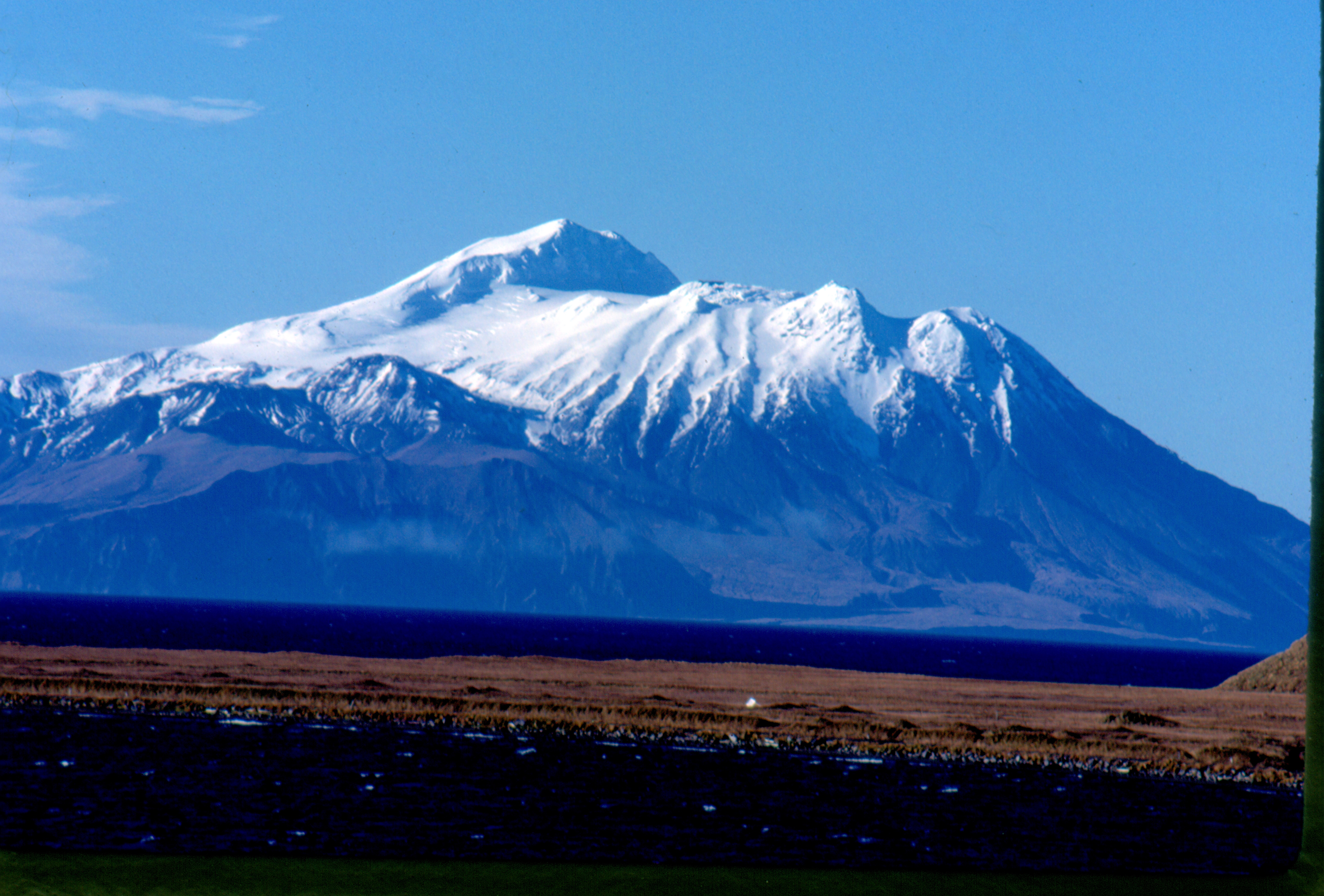 This picture of Great Sitkin Volcano was taken from the shore of Adak Island while I was attached to the Naval Security Group Activity.